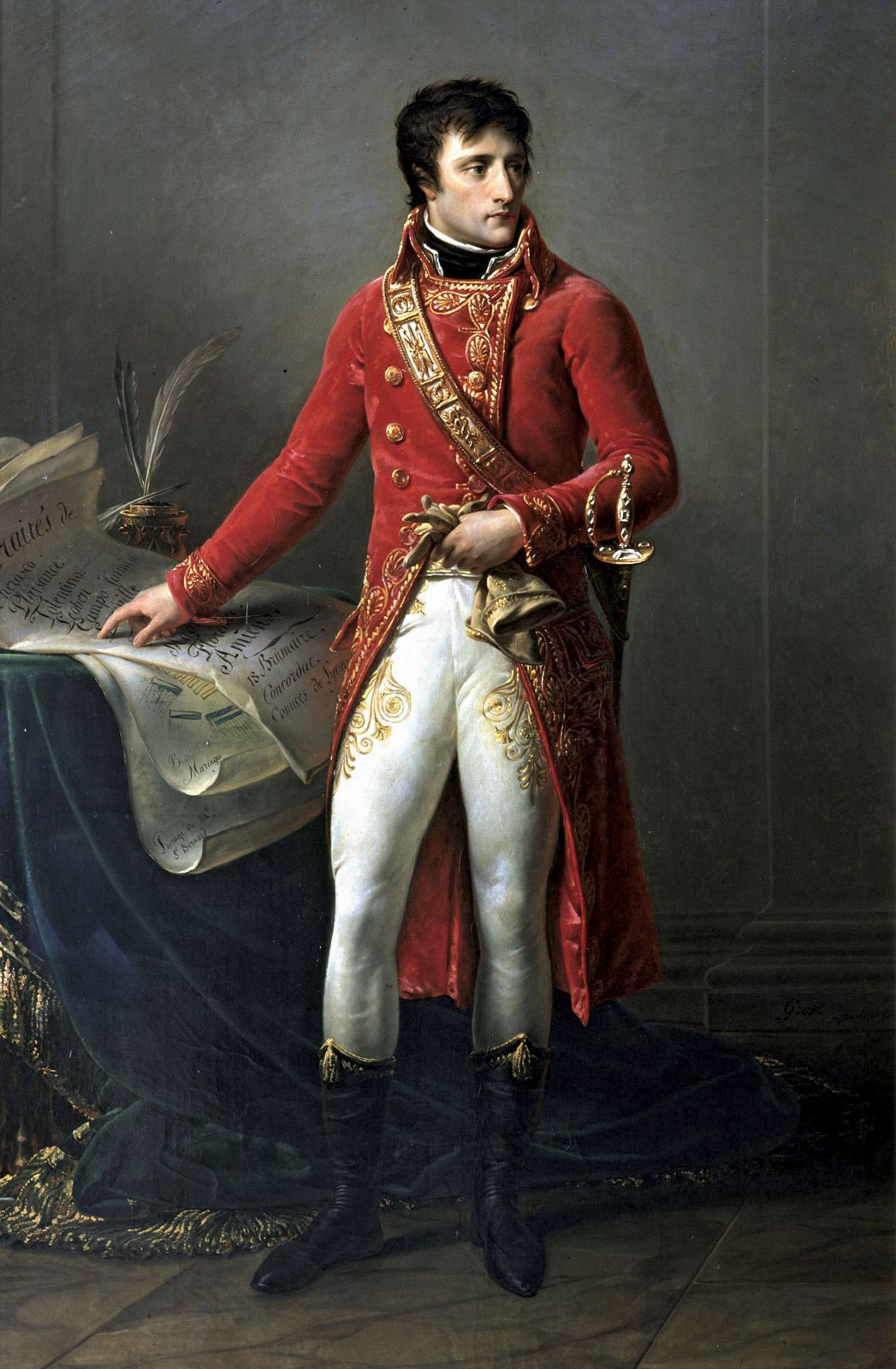 First Consul Napoleon Bonaparte